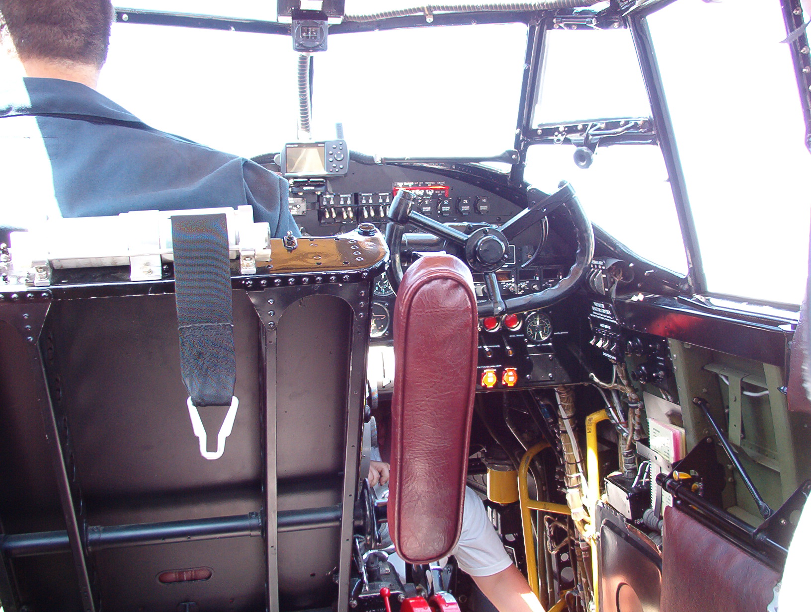 Inside the cockpit of the Andrew Mynarski Memorial Lancaster Mk X FM213. The dual controls have presumably been added for safety because this aircraft still flies. The standard Lancaster lacked dual controls. Photograph taken at the Canadian Warplane Heritage Museum in Hamilton, Ontario, Canada. It is for use in the Wikinews reporter attends warplane airshow in Hamilton, Ontario, Canada article.